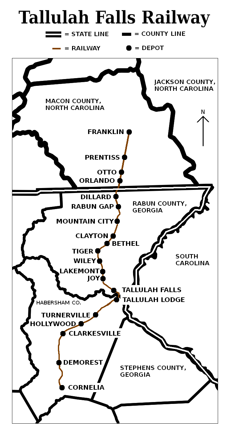 Self-made map of the Tallulah Falls Railway